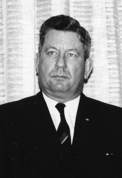 The opening day of Victoria and Grey Trust Company's new office on Front Street Belleville, Ontario. From left to right: H.J. McLaughlin - President W.H. Morton - Director of the Belleville Branch Clarke T. Rollins - MPP Hastings East Lee H. Grills - MP Hastings South